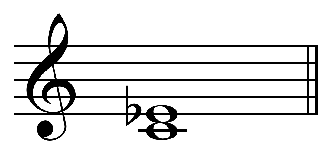 Minor third on C = E♭. Just: 6:5 = 315.64 cents. Equal-tempered: 23/12:1 = 300 cents.